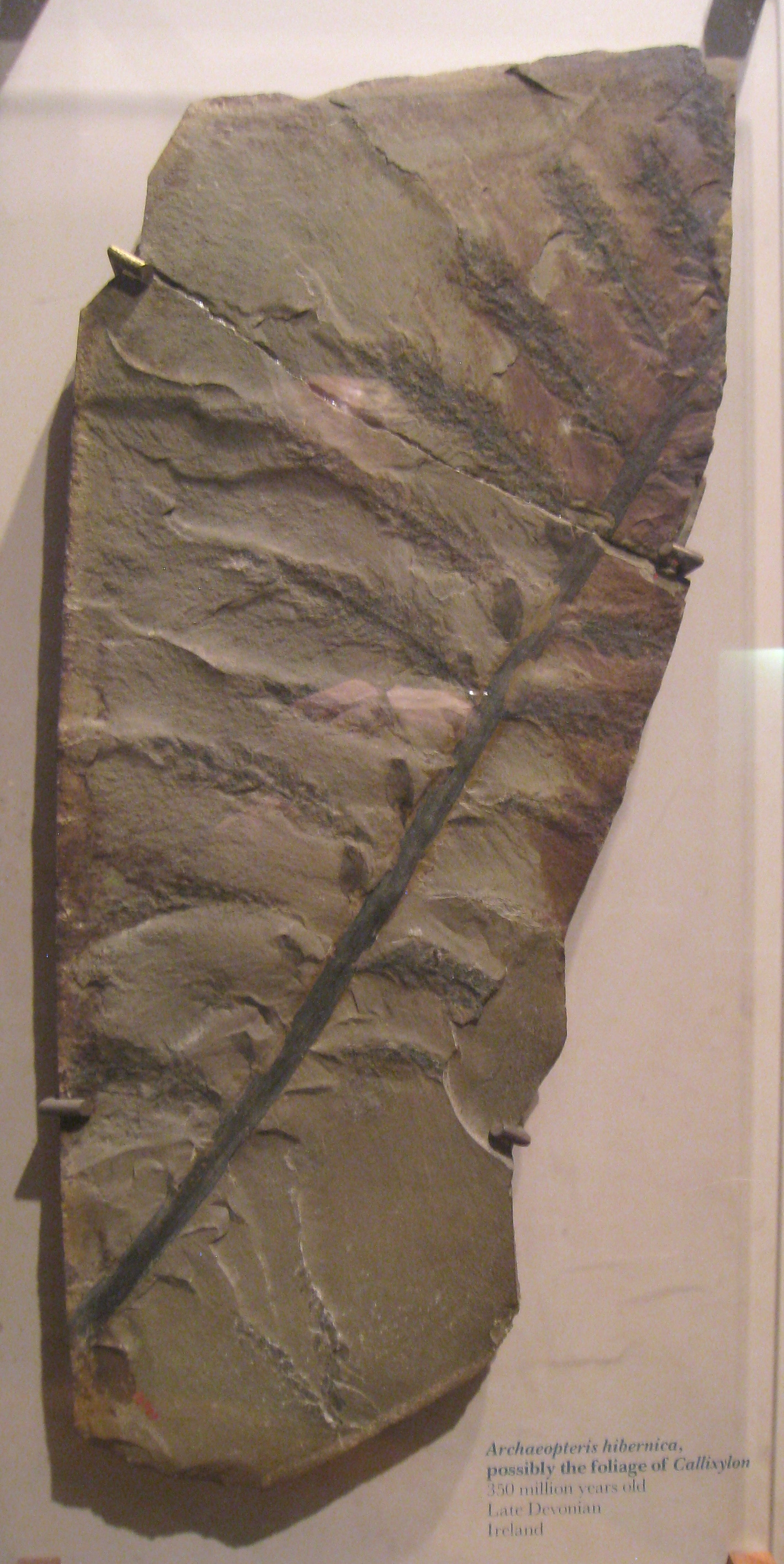 Archaeopteris hibernica fossil specimen in the National Museum of Natural History, Smithsonian Institution, Washington, DC, USA.